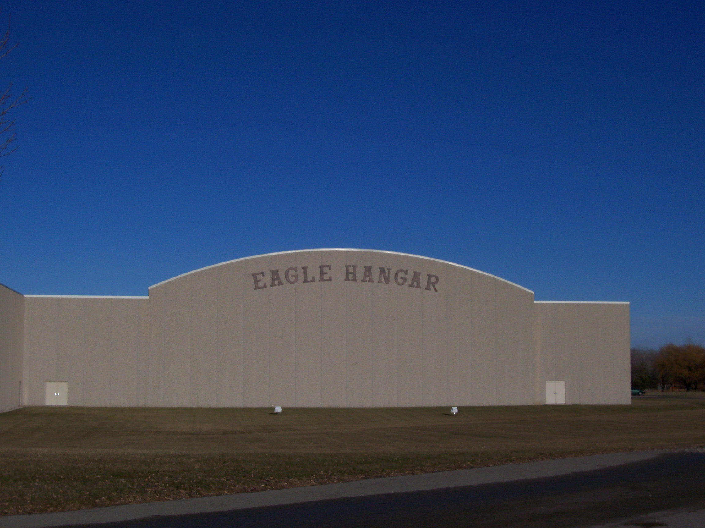 The Eagle Hangar at the Experimental Aircraft Association (EAA) Air Adventure Museum in Oshkosh, Wisconsin, USA.